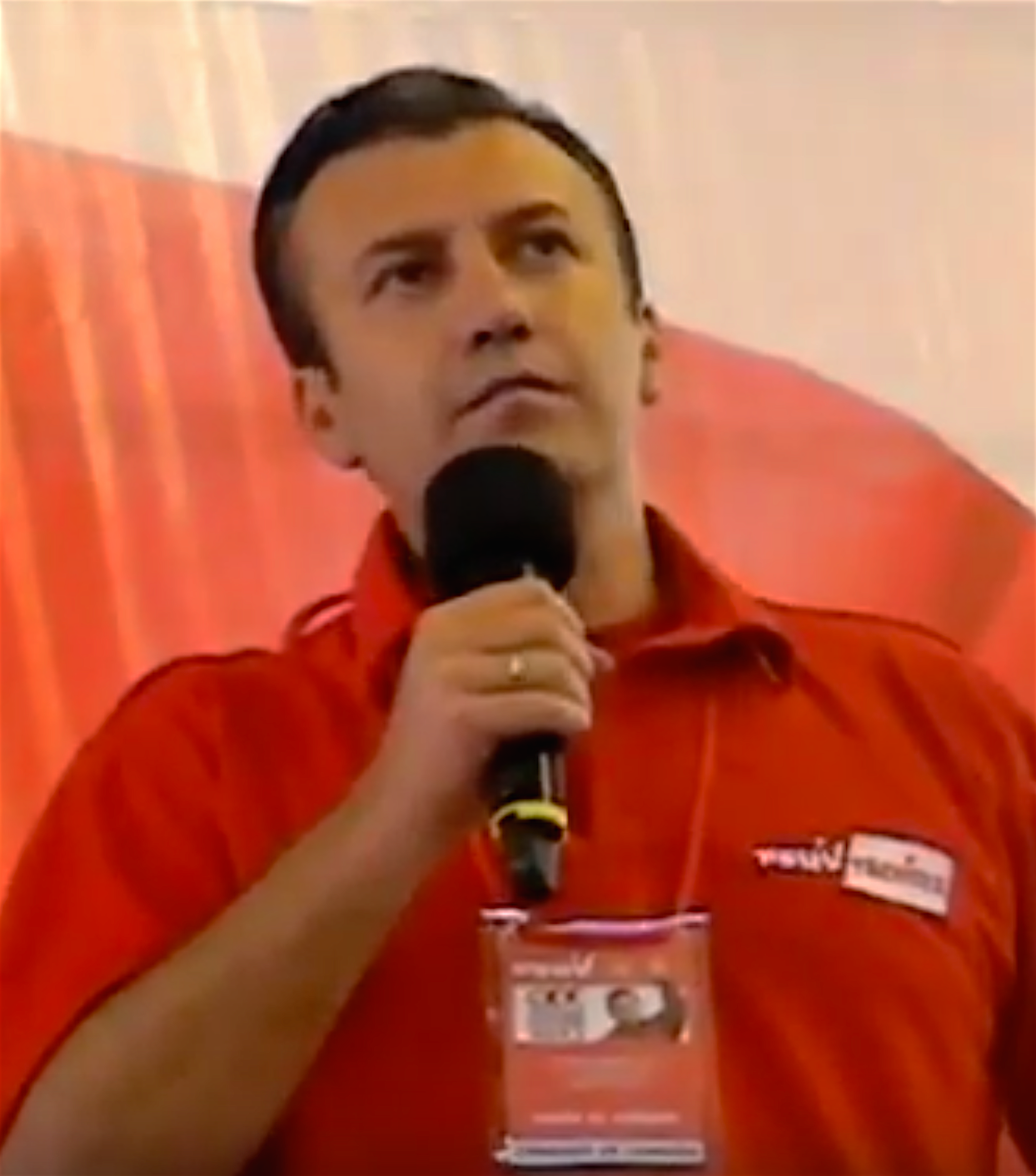 Tareck El Aissami in 2012.